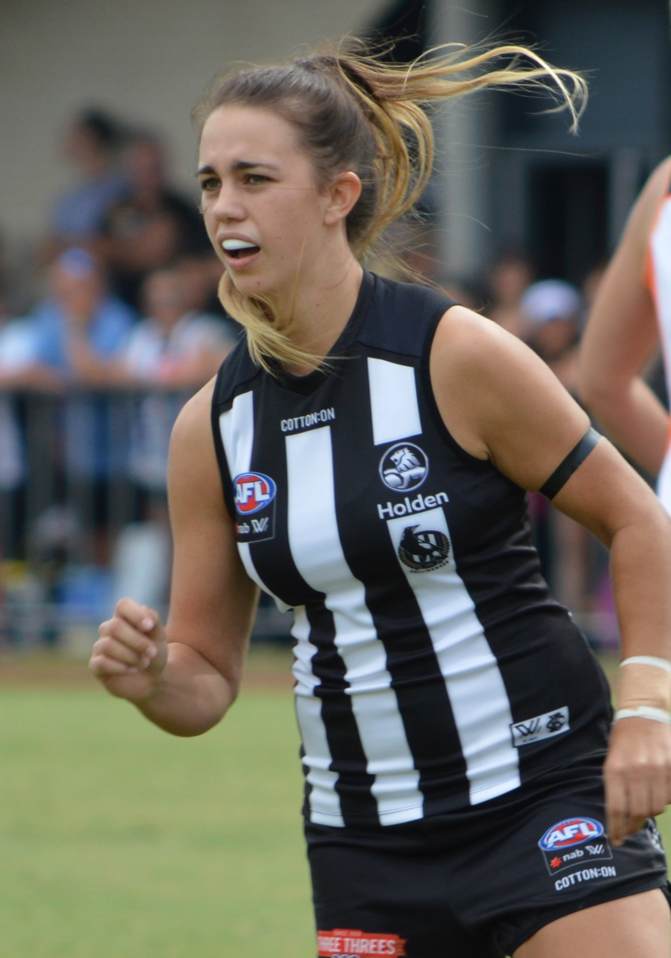 Chloe Molloy during the round 3, 2018, AFL Women's match between Collingwood and Greater Western Sydney